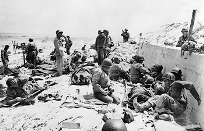 Original description: "The US 1st Army: Casualties of 4th US Infantry Division, attended by US Medical Corpsmen, await evacuation by the sea wall at 'Uncle Red' Beach, UTAH Area, on the morning of 6 June. The landings on UTAH were undertaken by the 7th US Corps under Lt General Collins, the assault being carried out by the 4th Infantry Division. The invaders met little resistance and by the end of the day, 23,350 men had come ashore with less than 200 killed."